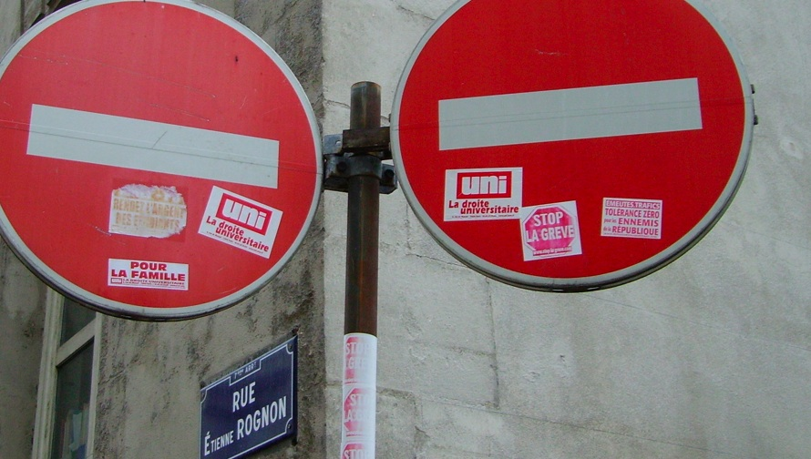 Autocollants de l'UNI (Union Nationale Interuniversitaire) près de l'Institut d'Etudes Politiques de Lyon Photo : François Delbard - Novembre 2006 Stickers of the UNI (Union of french right-wing students) Photo taken by François Delbard, in Lyon, France, November 2006